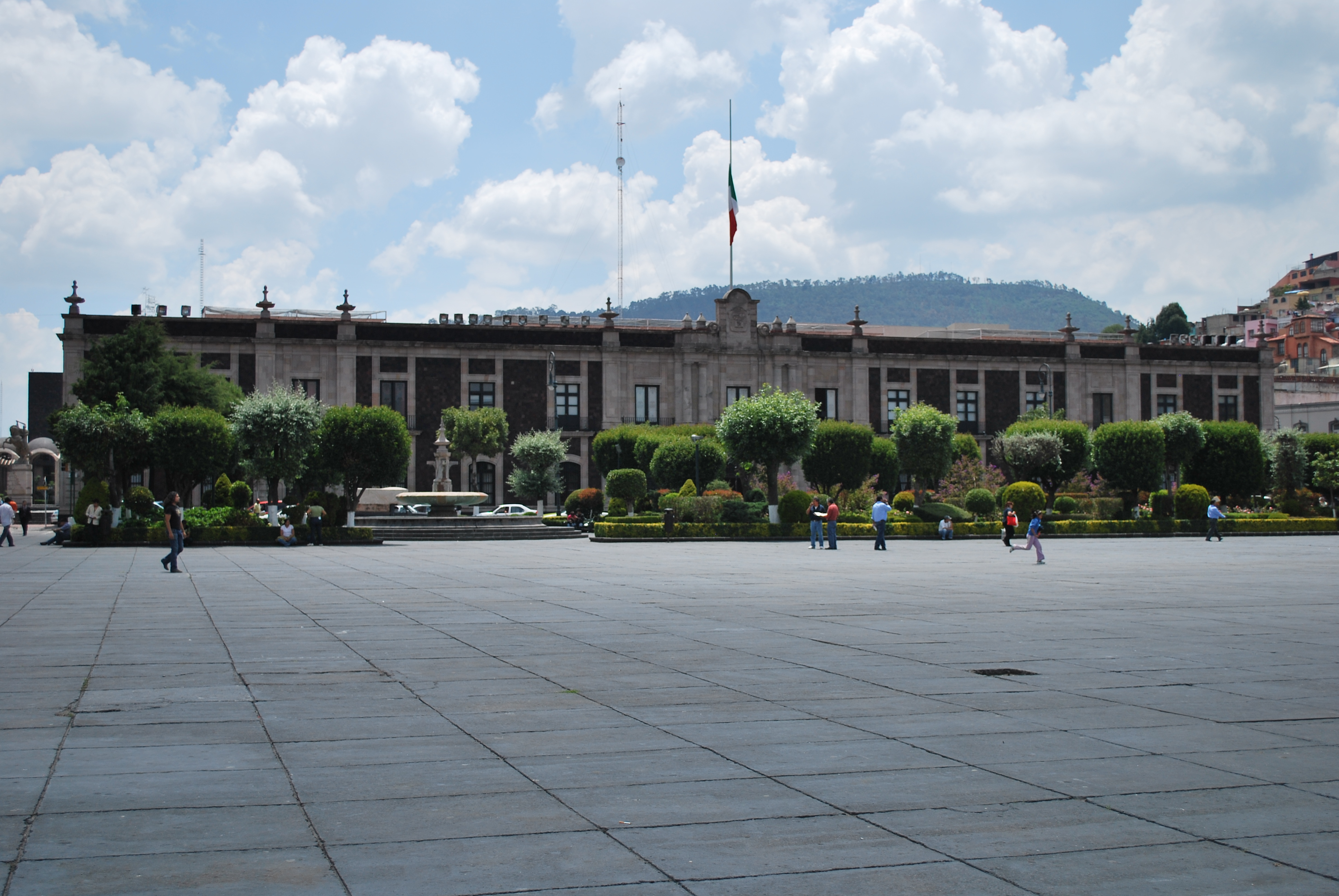 Judicial Palace of Toluca located on the west side of the Plaza de los Martires in Toluca, Mexico State